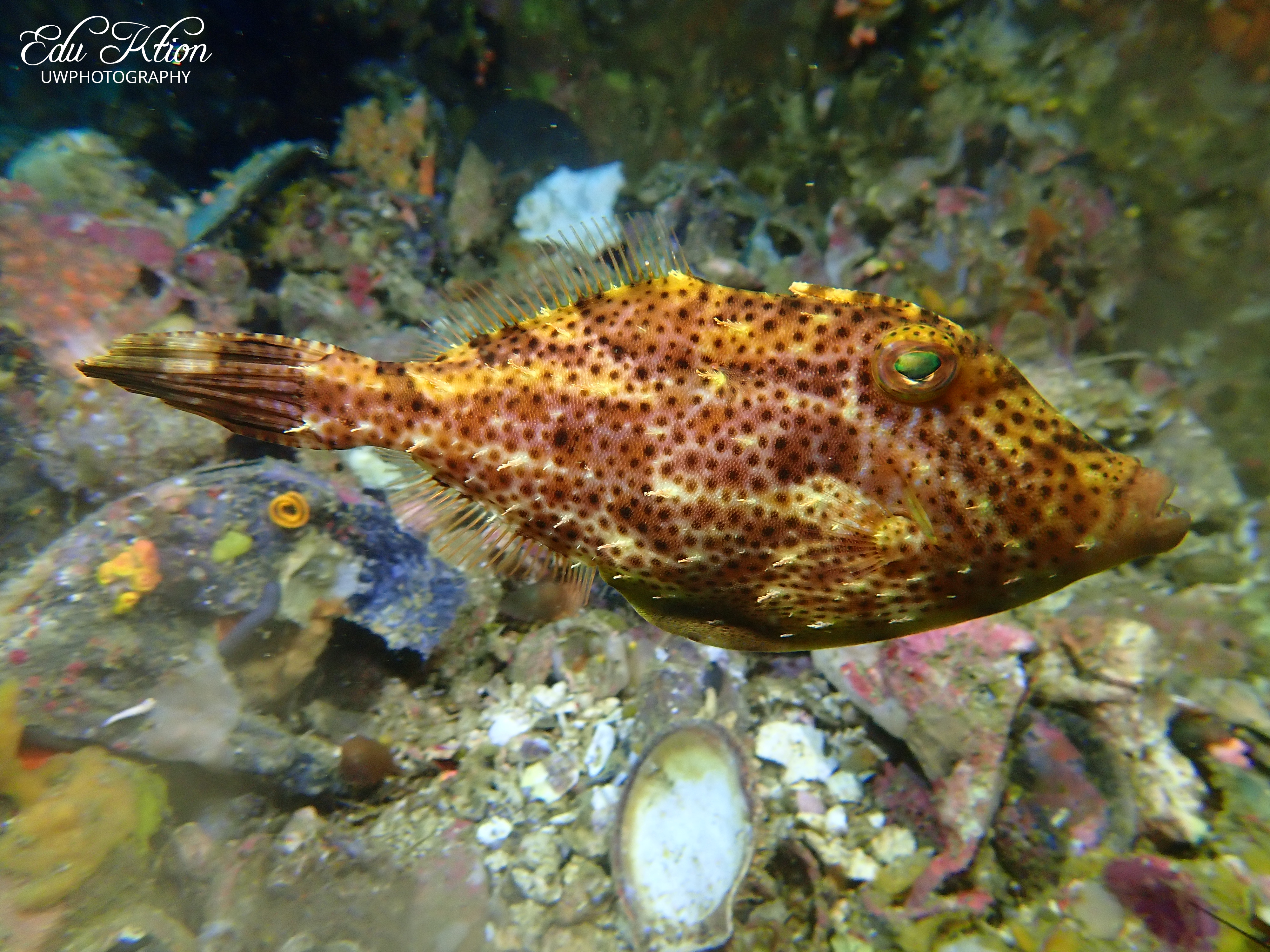 Image of a Strap-weed filefish, Pseudomonacanthus macrurus. Taken at Lembeh straits, North Sulawesi, Indonesia.